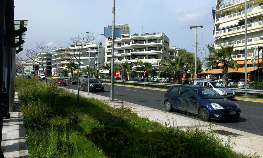 alimos